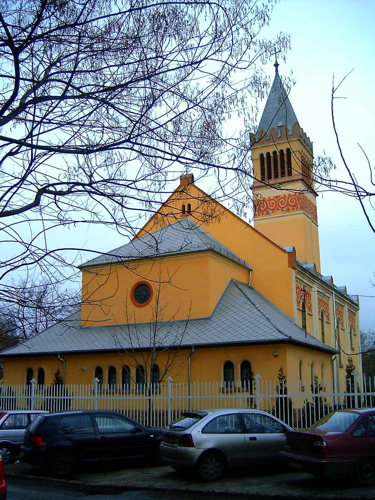 Protestant church in Kispest, backside (19th district in Budapest)